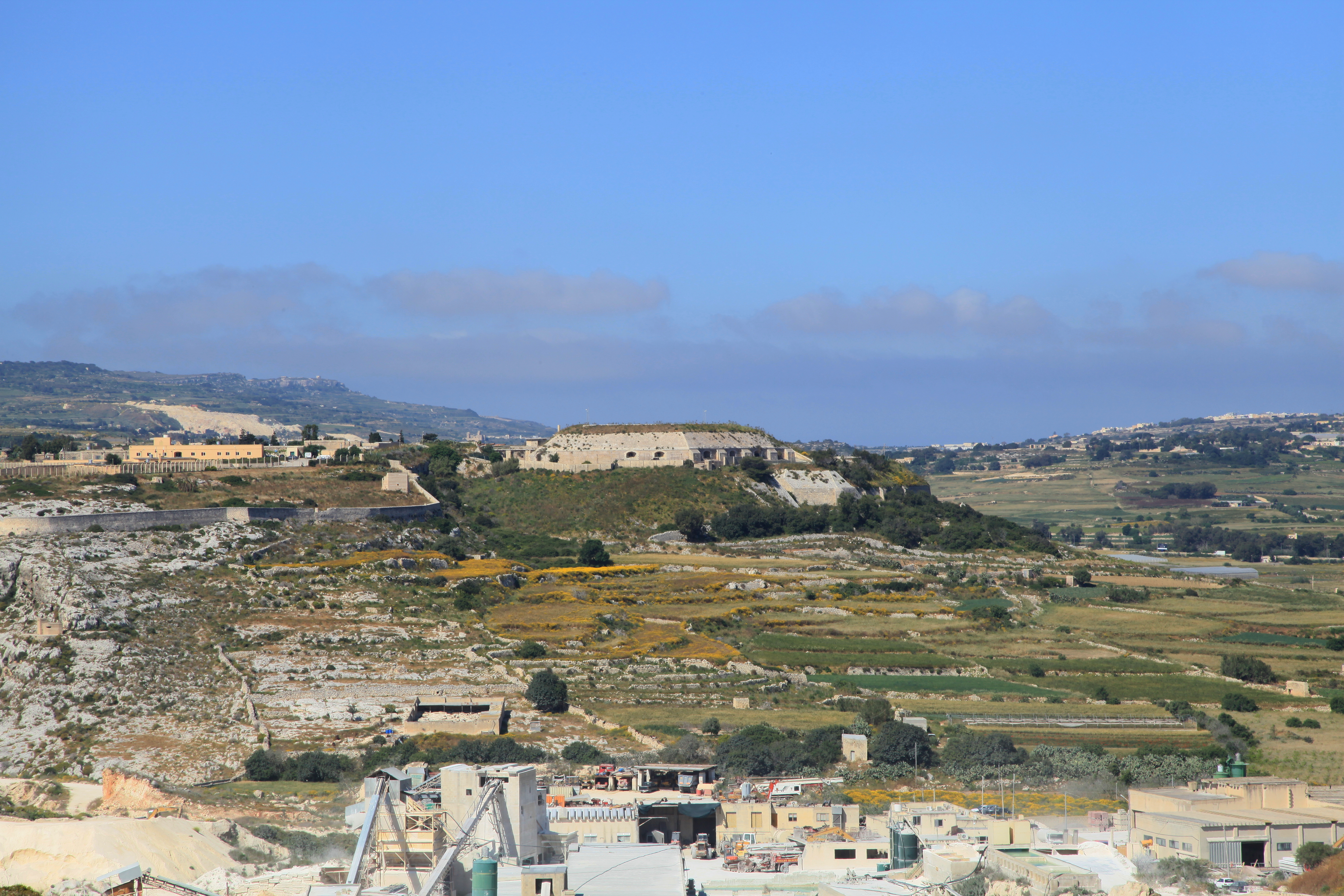 Quarry "Ballut Blocks", Triq is-Salina in Naxxar, Malta